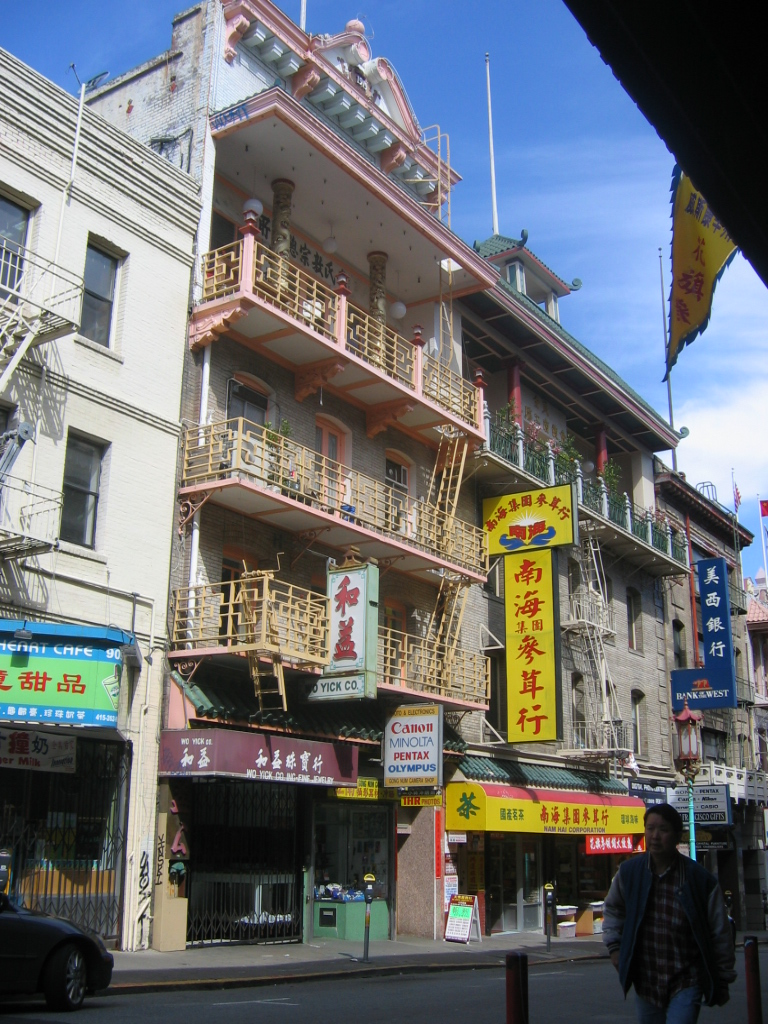 Description : Chinatown, San Francisco, California, USA. Author : own work, Urban. I took this picture on April 2006.